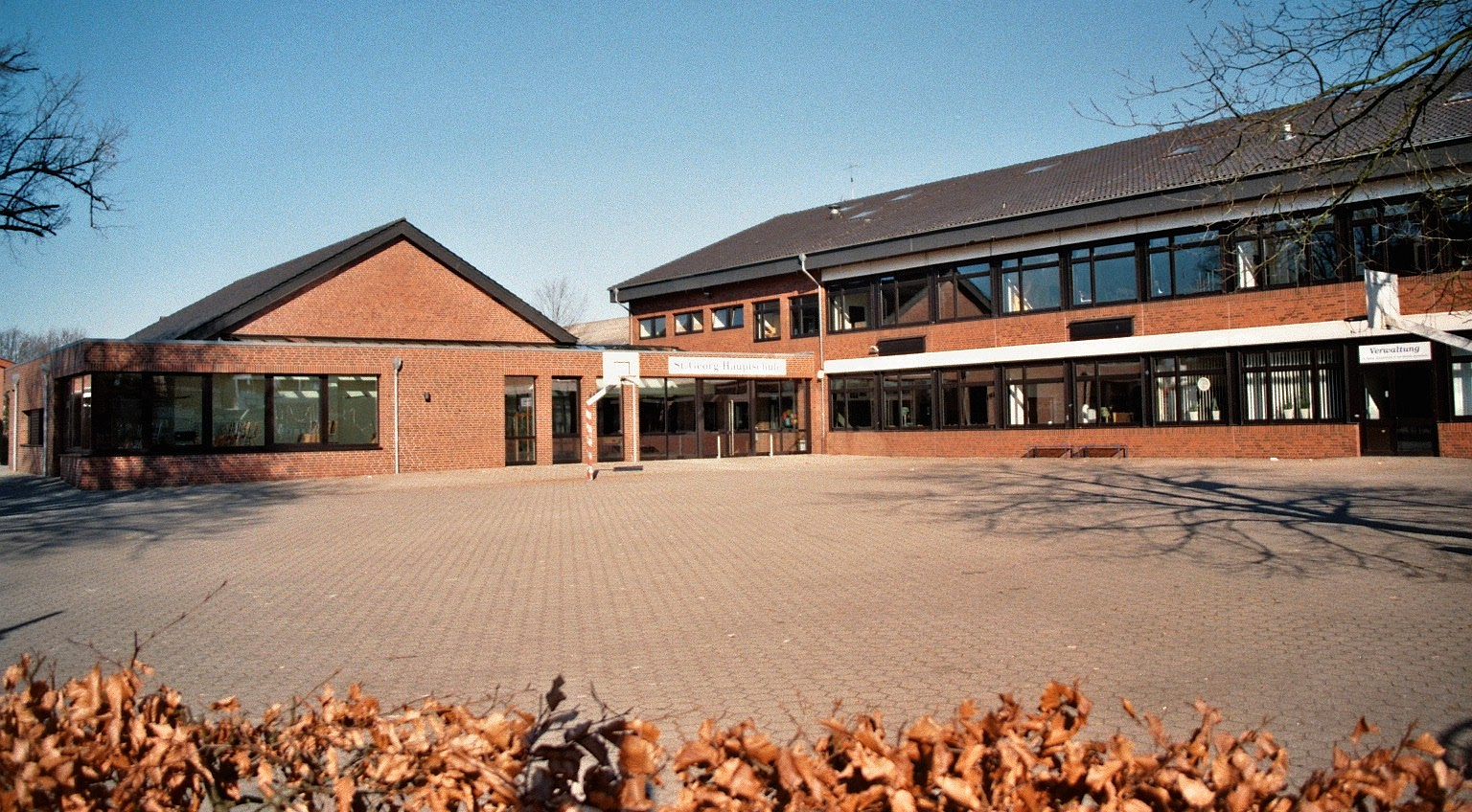 St.-Georg-Hauptschule in Hopsten, Kreis Steinfurt, North Rhine-Westphalia, Germany. The school is named after Saint George.